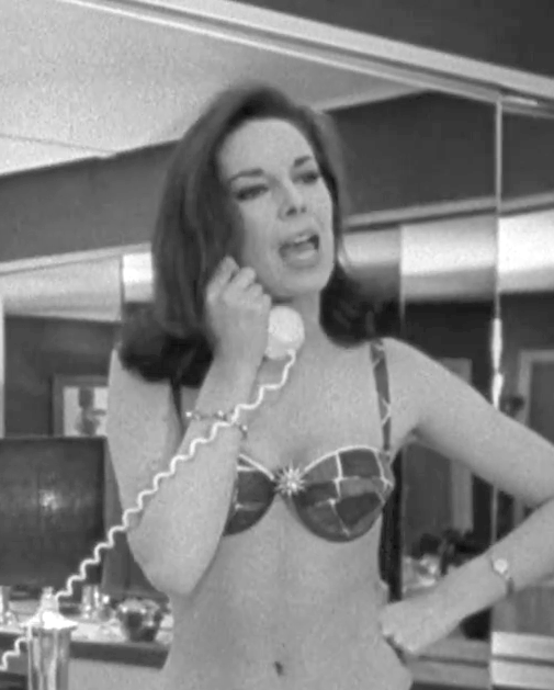 Tracy Reed in a screenshot of the trailer of the 1964 film, Dr. Strangelove.